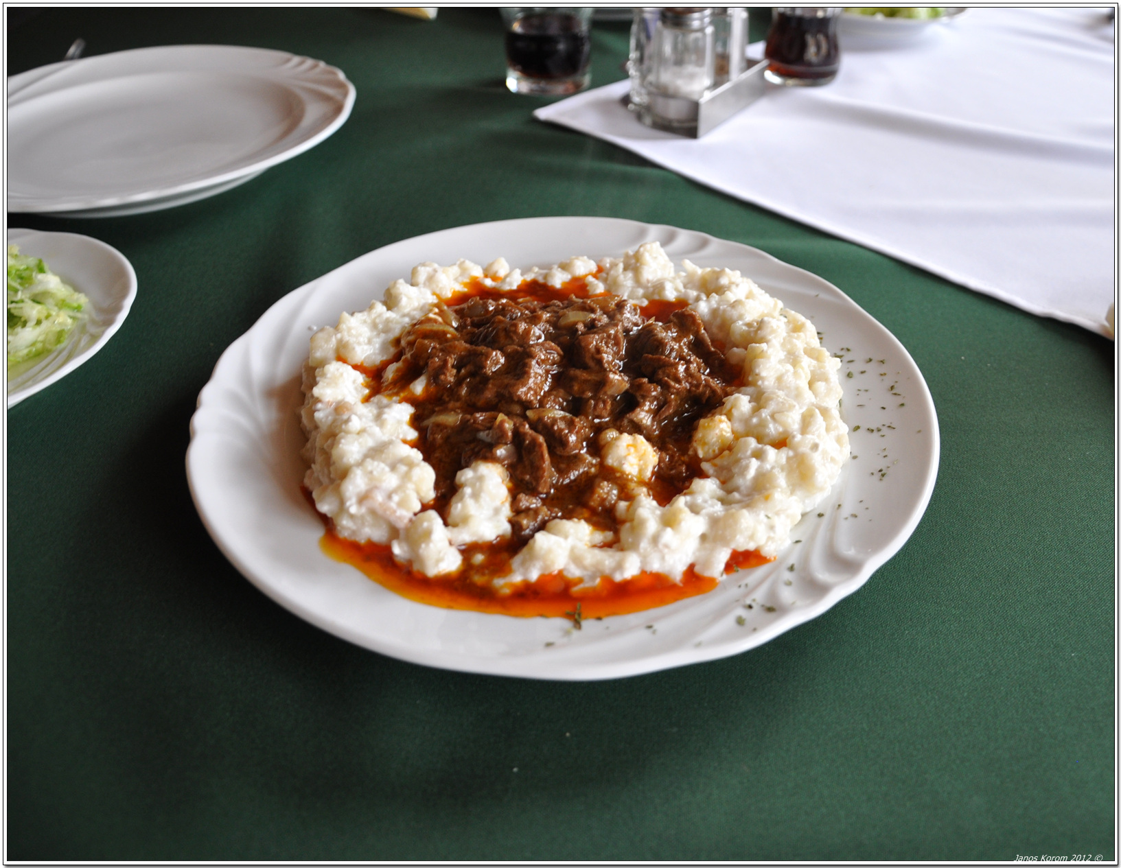 Tolcsvai Király Panzió-Étterem - marhapörkölt juhtúrós sztapacskával